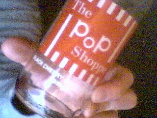 close up of a new Pop Shoppe bottle